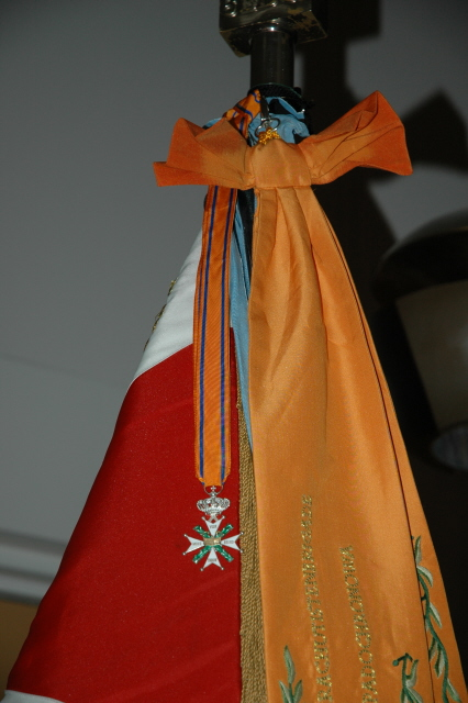 Military William Order awarded to the Polish 1st Independent Parachute Brigade. Here presented before the residents of Driel.